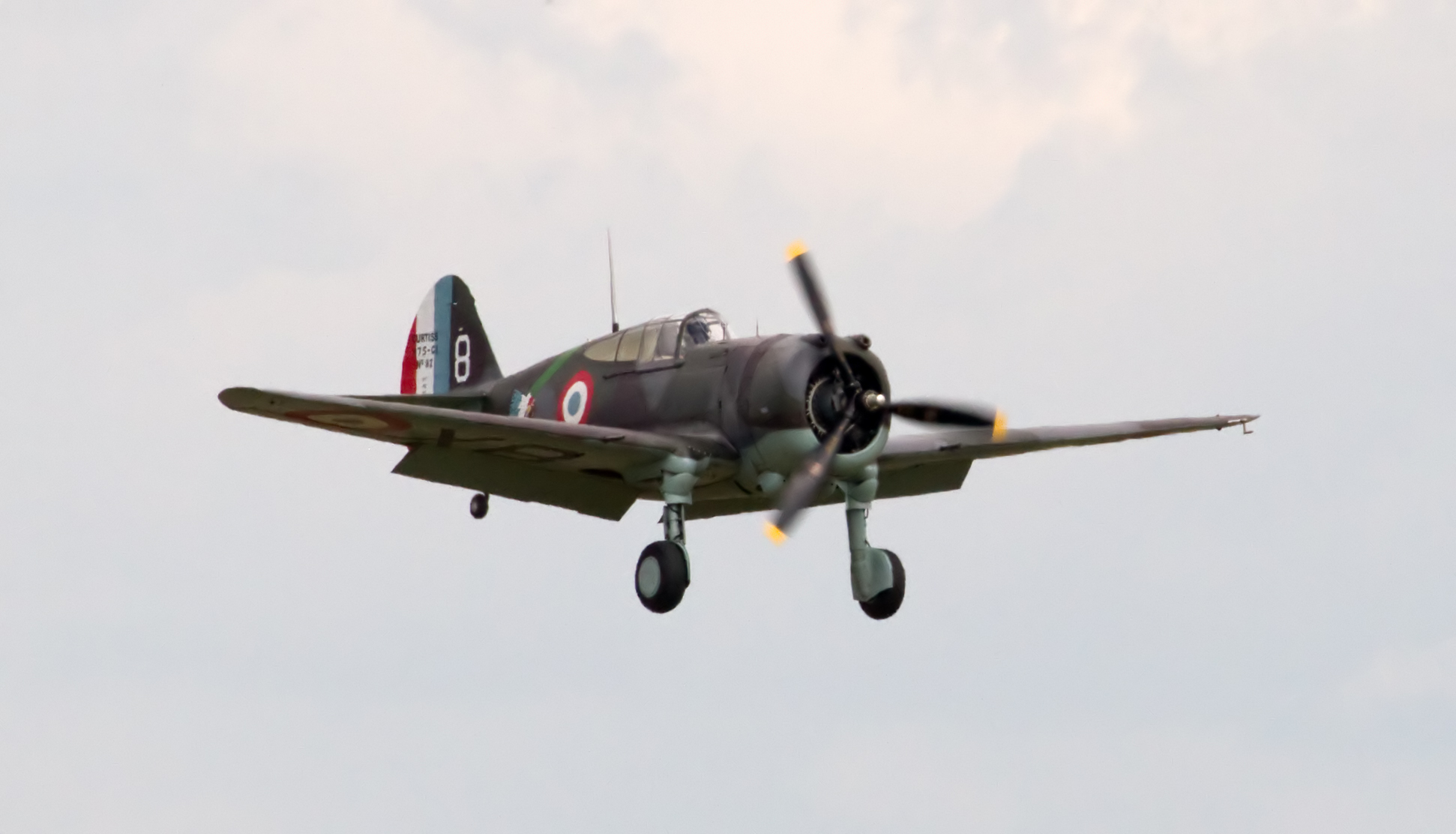 Curtiss Hawk 75 No 82 coming into land